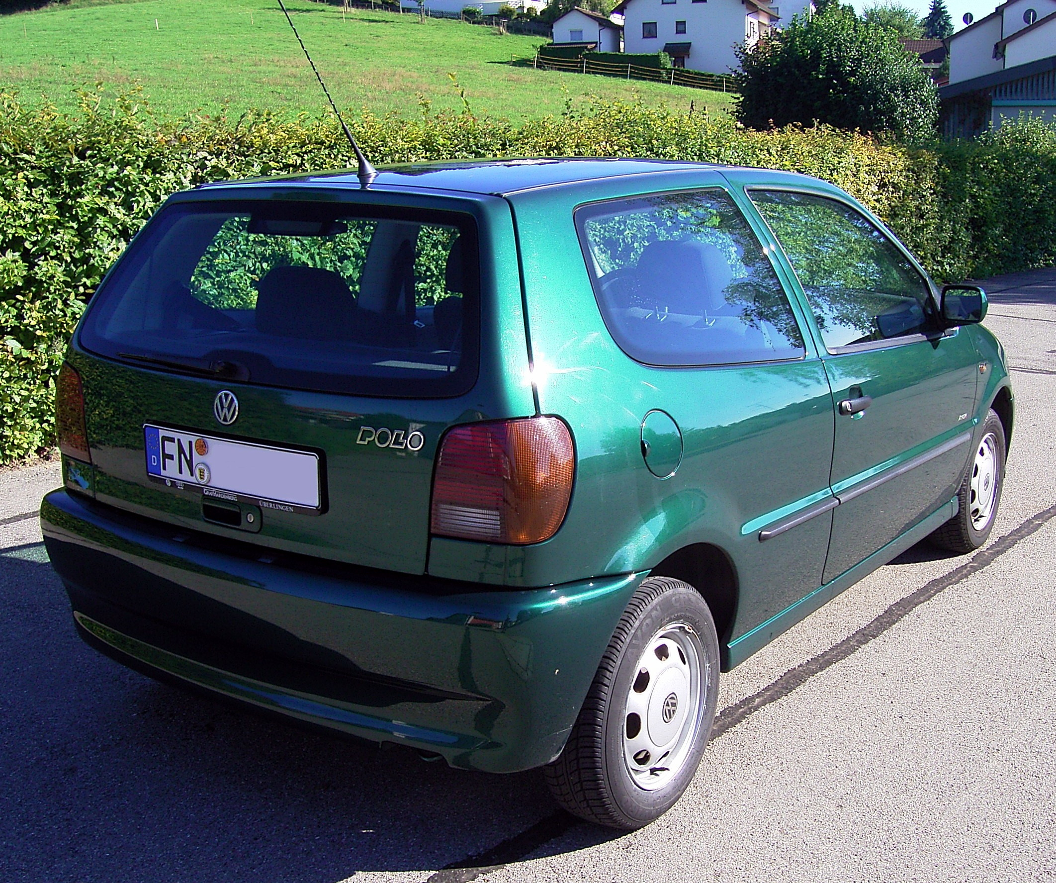 A dark green VW Polo Mk III (6N)